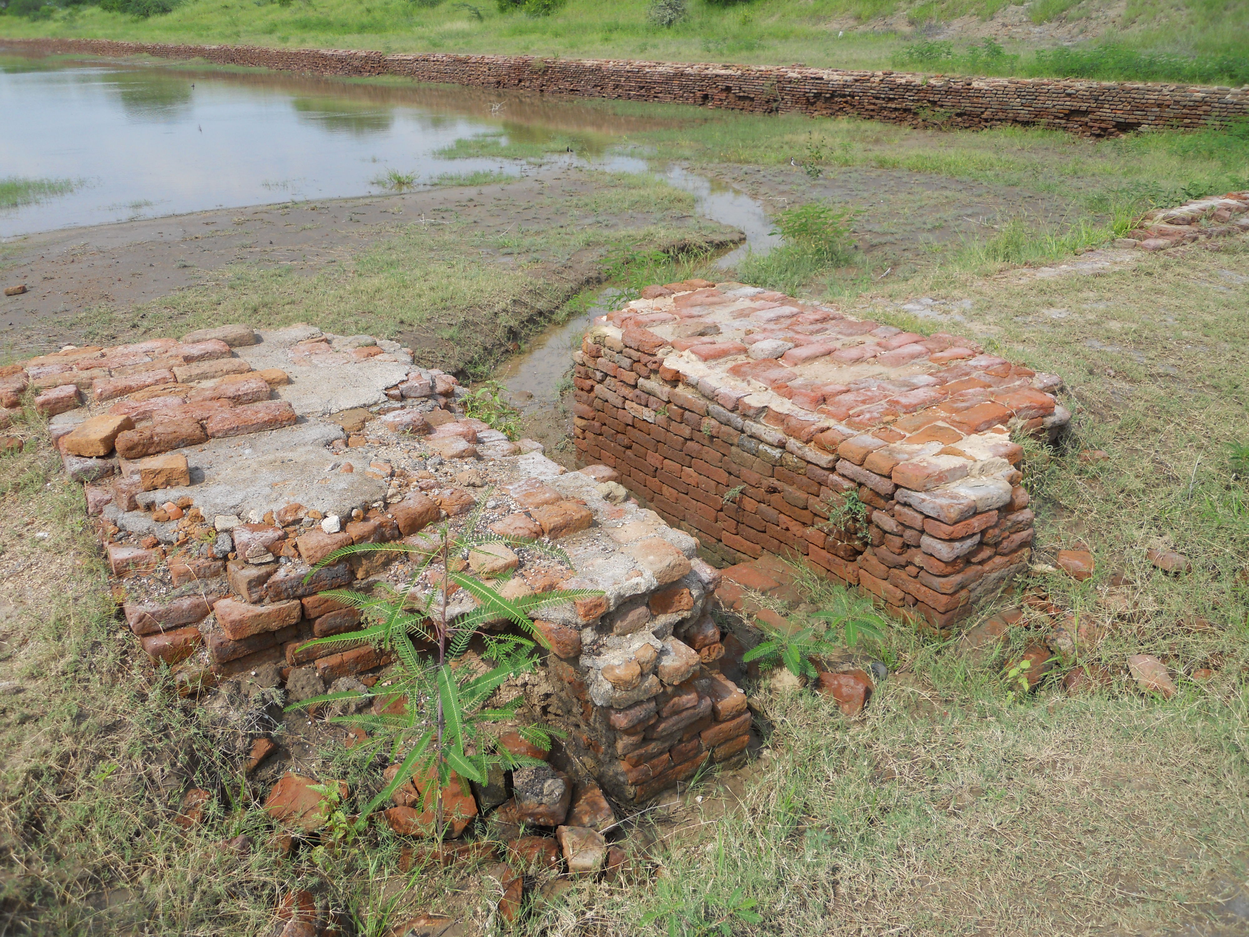 Ancient site at Lothal